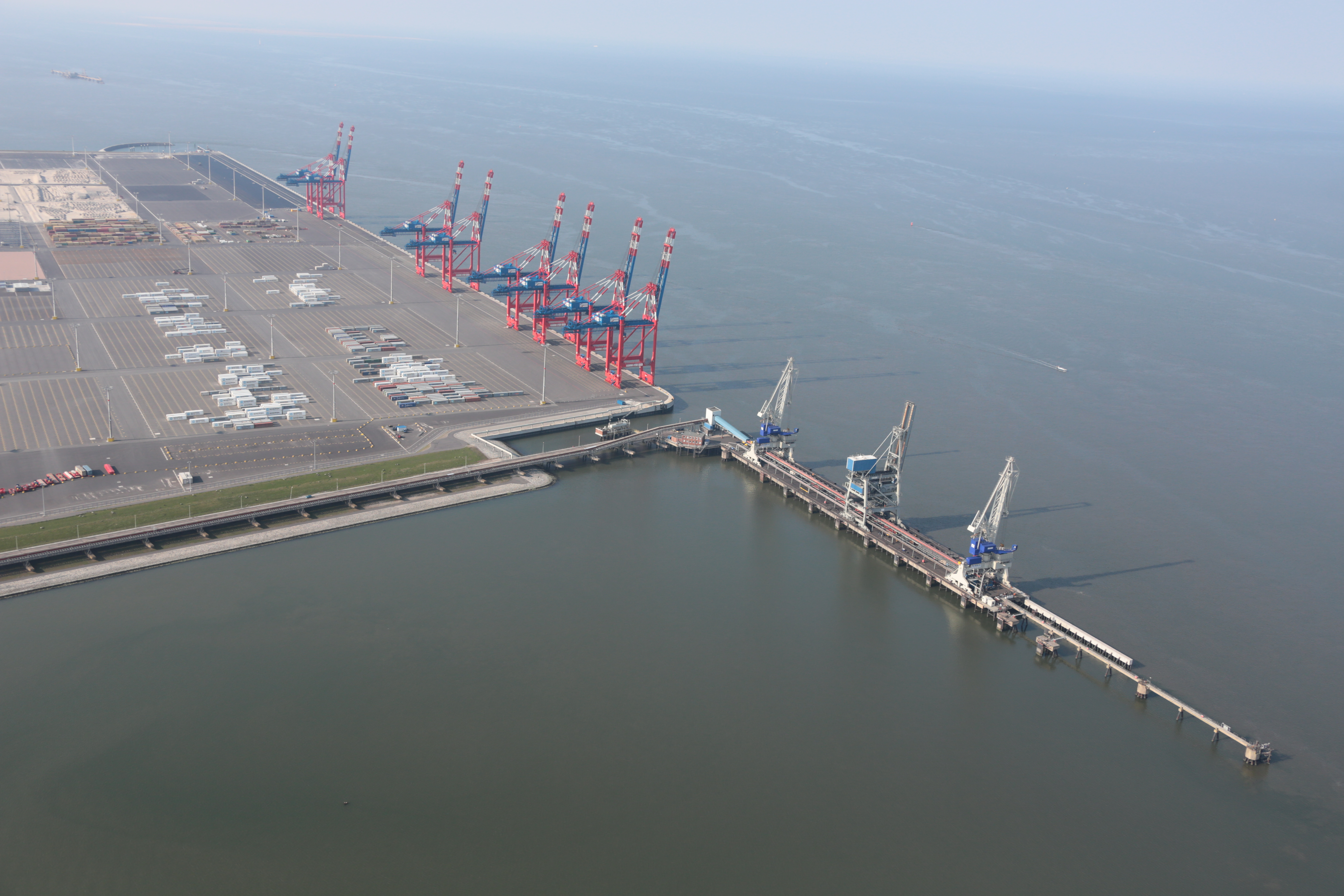 Fotoflug von Nordholz-Spieka nach Oldenburg und Papenburg This photo was taken by Alchemist-hp. If you use one of my photos, an email (account needed) or a message or direct to: my email account would be greatly appreciated. Please note the license terms. Other licensing terms can get discussed, too. This file is copyrighted and has been released under a license which is incompatible with Facebook's licensing terms. It is not permitted to upload this file to Facebook.